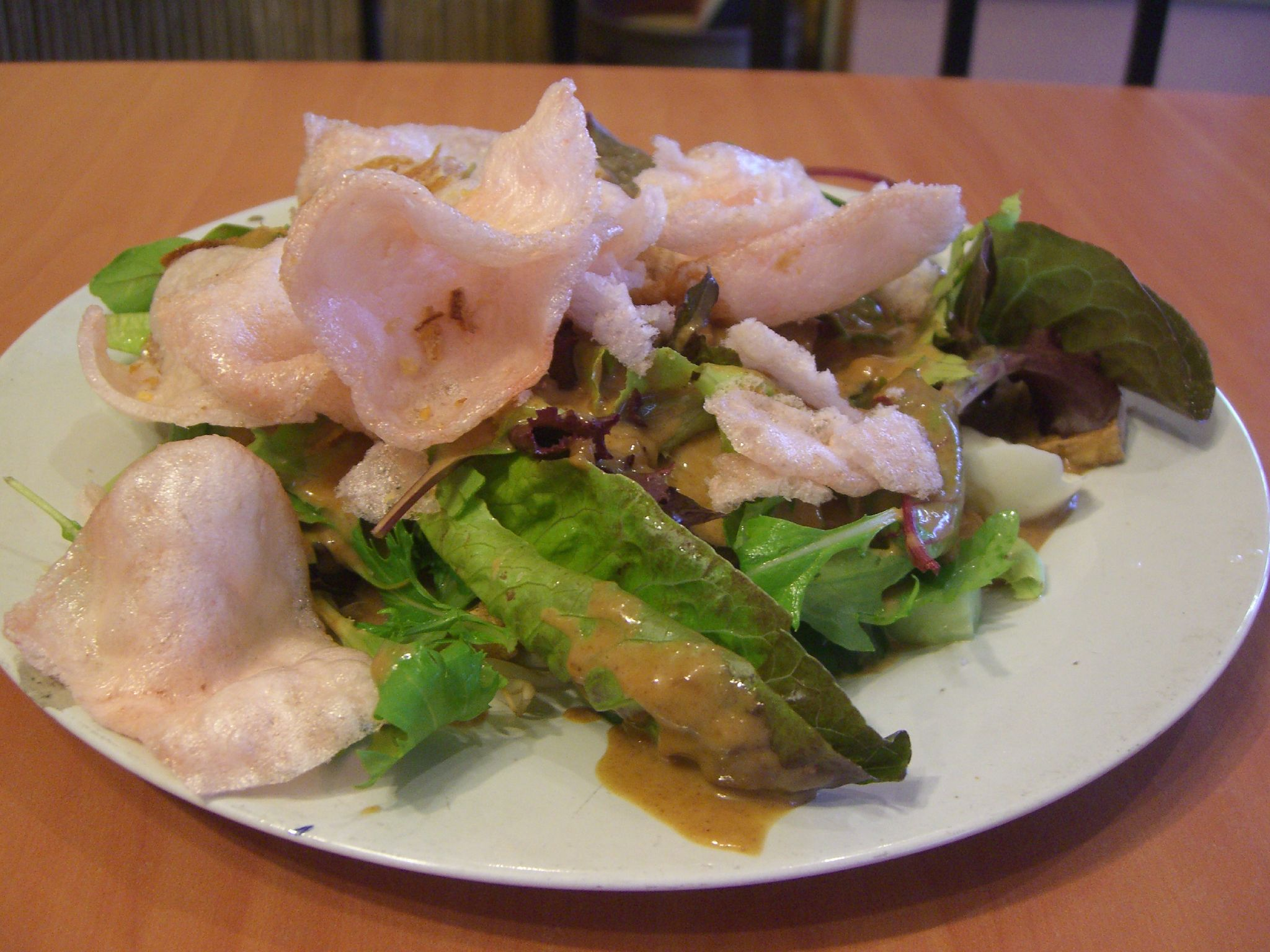 Gado Gado - Bamboe AUD8.90 This gado gado changes as the seasons change. being Summer you get lighter salady greens. In Winter, you get cooked vegetables like cabbages and brocolli. Who'd have though that Indonesian food would follow the seasons! :) btw, their smooth peanut sauce was yum! --- Yum! I love the sweet and spicy combination that is Indonesian food! Bamboe Cafe & Restaurant 643 Warrigal Rd Chadstone 3148 (03) 9568 5311 - Gado Gado - Ayam Rica Rica - Soup Buntut